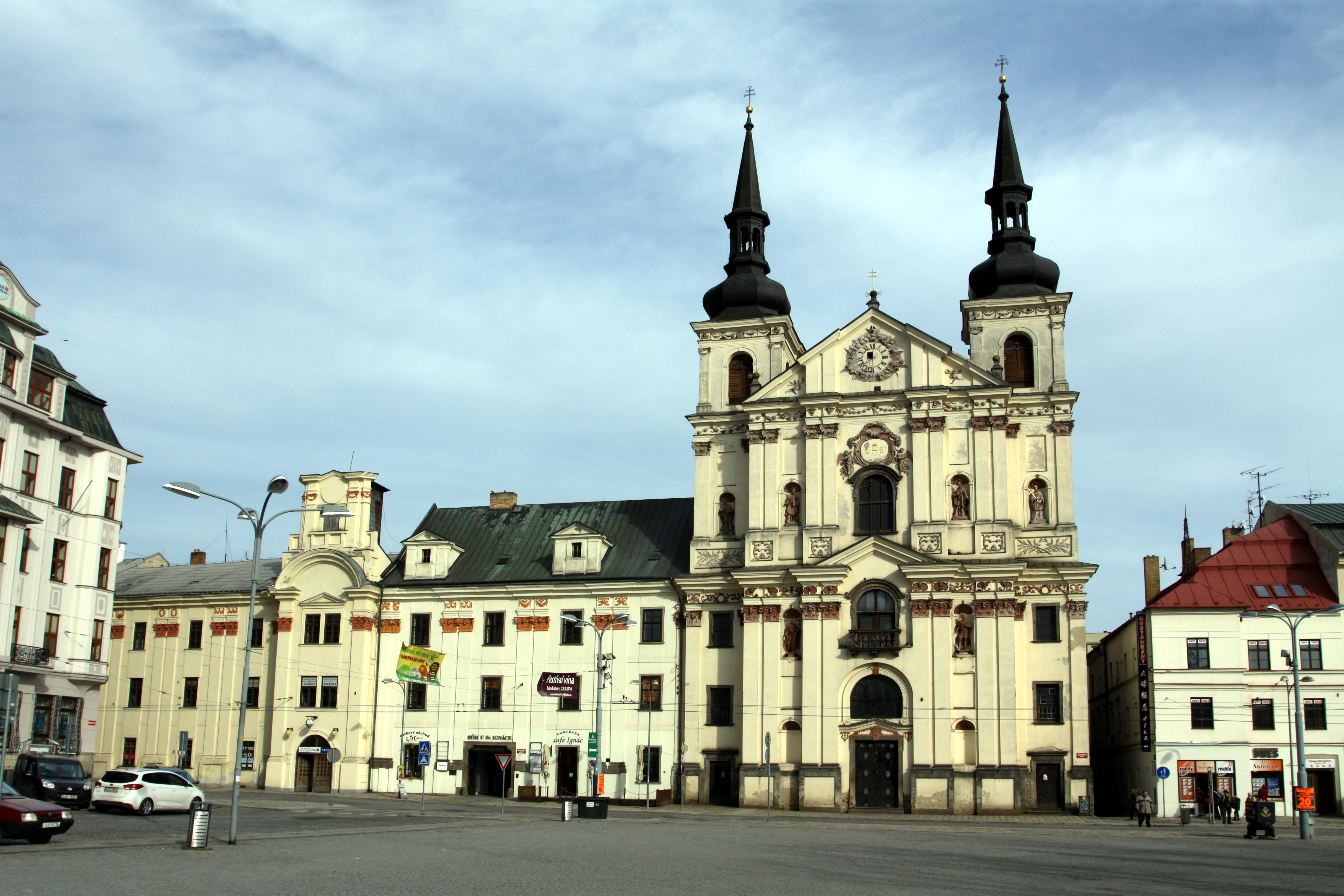 Masaryk's square with church of Saint Ignatius of Loyola in Jihlava, Jihlava District, Czech Republic